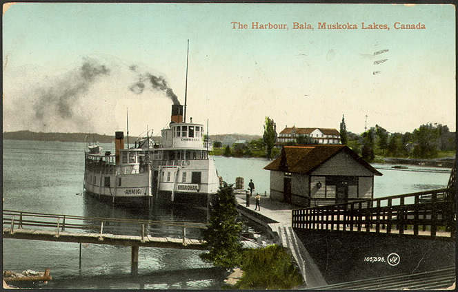 The Harbour, Bala, Muskoka Lakes, Canada This image is available from the Toronto Public Library under the reference number Card Serial No. 105,397 J.V. Printed in Great Britain.This tag does not indicate the copyright status of the attached work. A normal copyright tag is still required. See Commons:Licensing. English | français | +/−